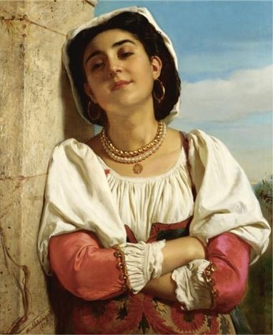 A Spanish Beauty